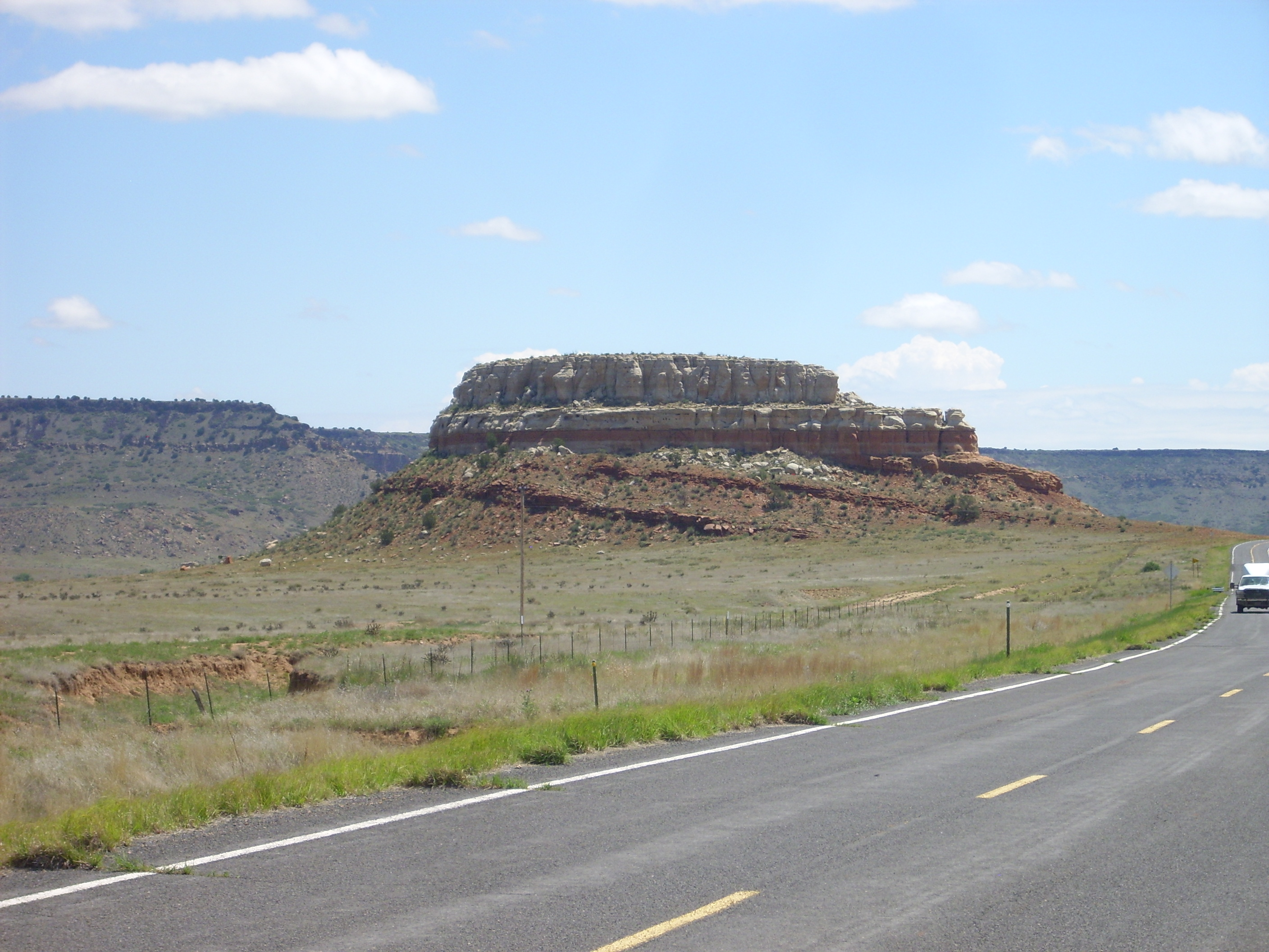 Steamboat Butte, in the valley of the Dry Cimarron, an excellent example of an angular unconformity.